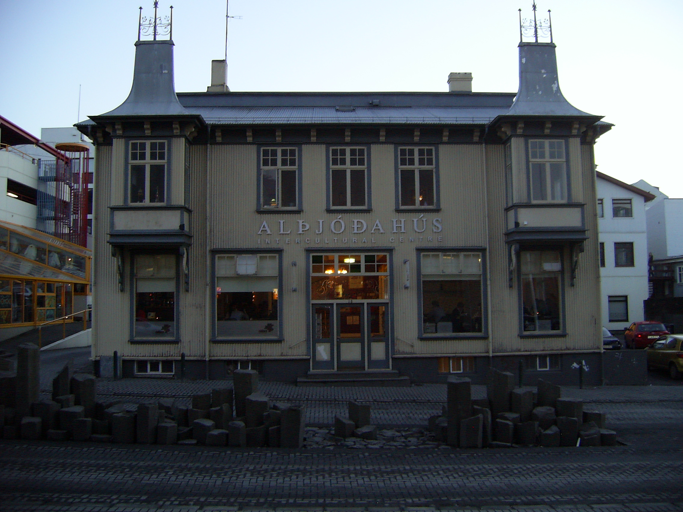 Intercultural Centre, Reykjavik, Iceland.